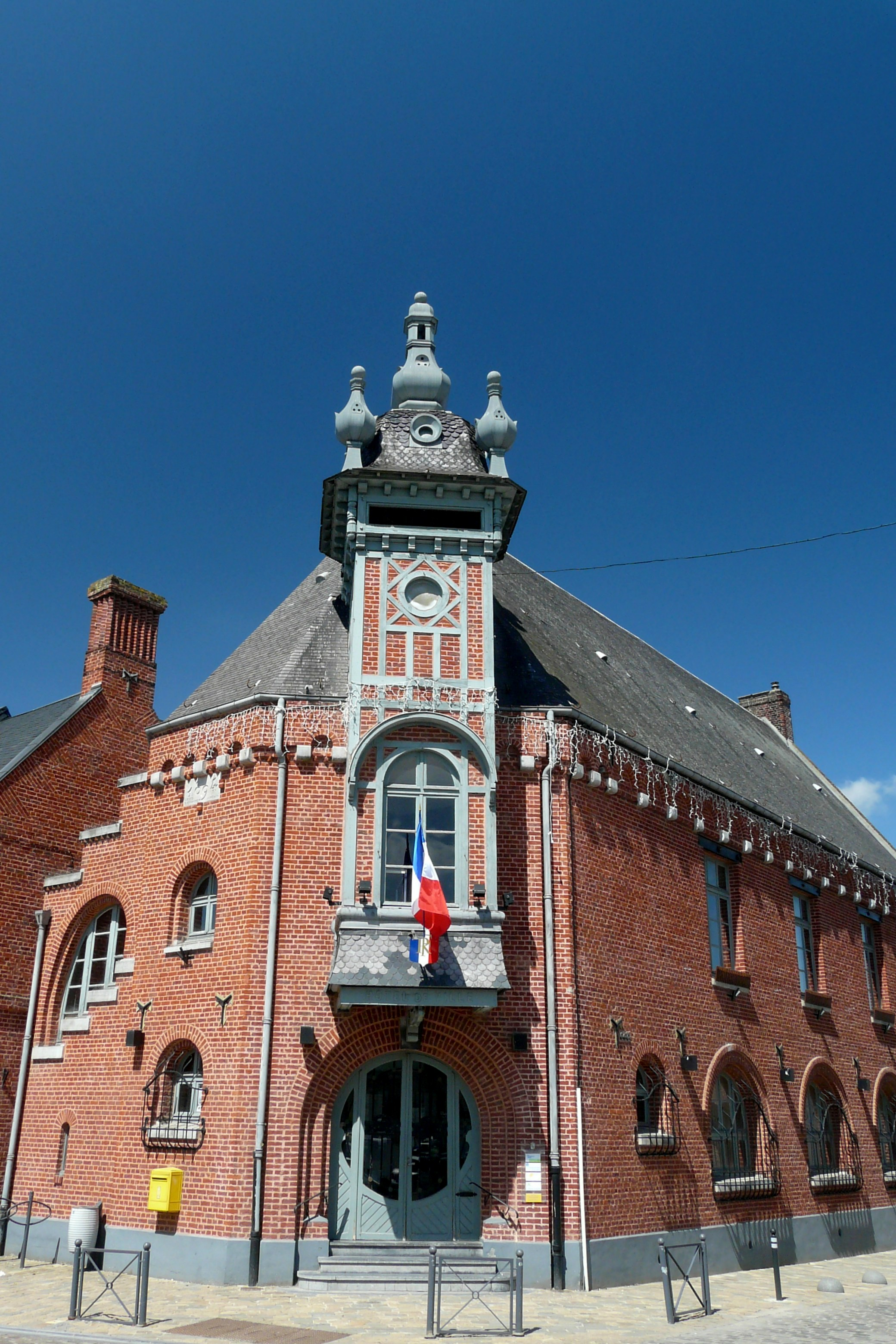 City hall in Templeuve, Nord, France. Architect : Louis Bonnier